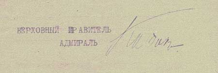 Signature Supreme Ruler Aleksandr Kolchak